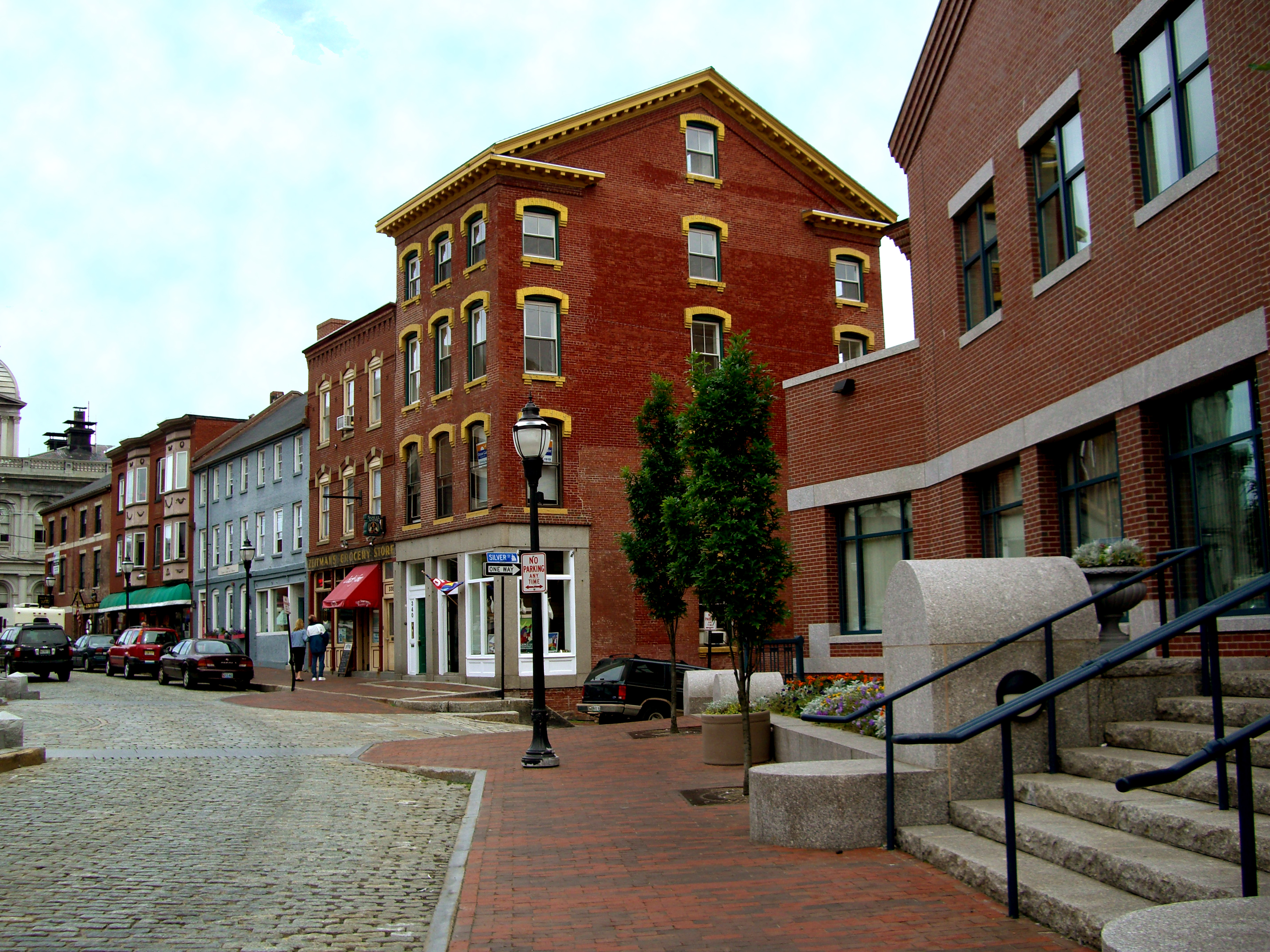 Fore Street, Old Port District of Portland, Maine, United States.